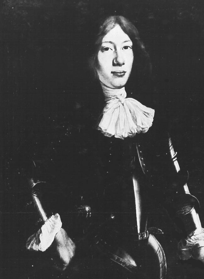 Portrait of William VI, Landgrave of Hesse-Kassel (1629-1663)